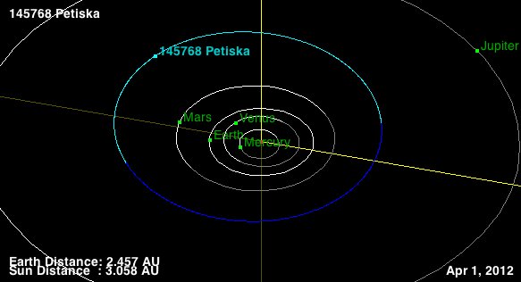 Petiska full Name: 145768 Petiska (1997 PT2) (Petiska)